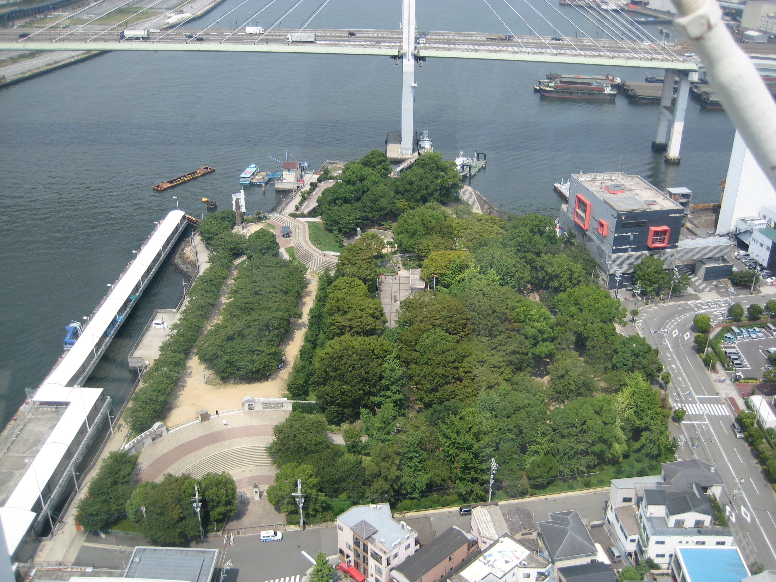 Tempozan_park(Mount Tempo,Mount Tenpō) Minato-ku Osaka-shi OSAKA,JAPAN Date:2008-08-02(JST)